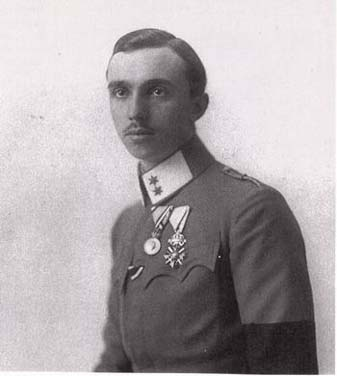 Prince René of Bourbon-Parma during World War I